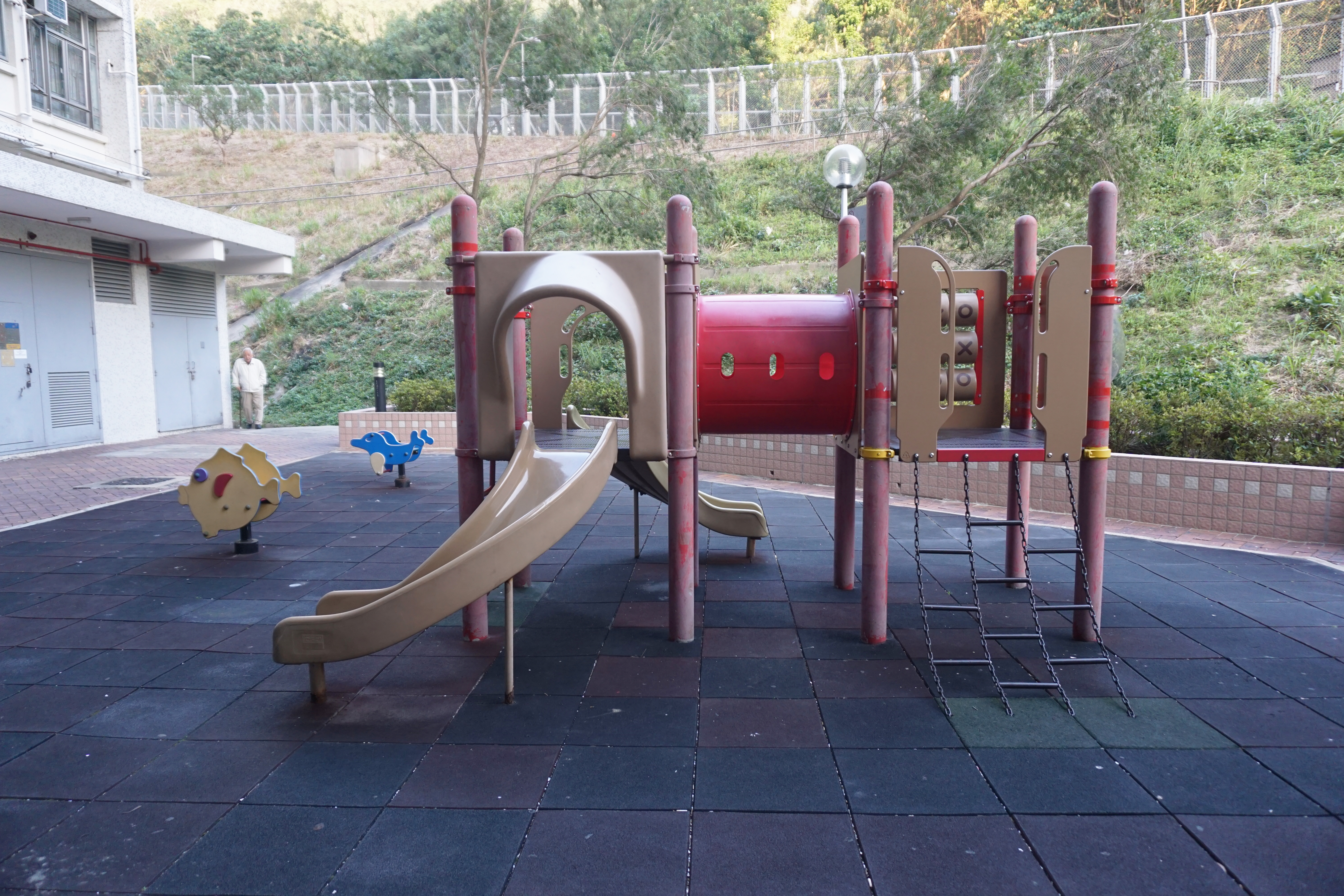 Choi Fai Estate in Ngau Chi Wan, Hong Kong.